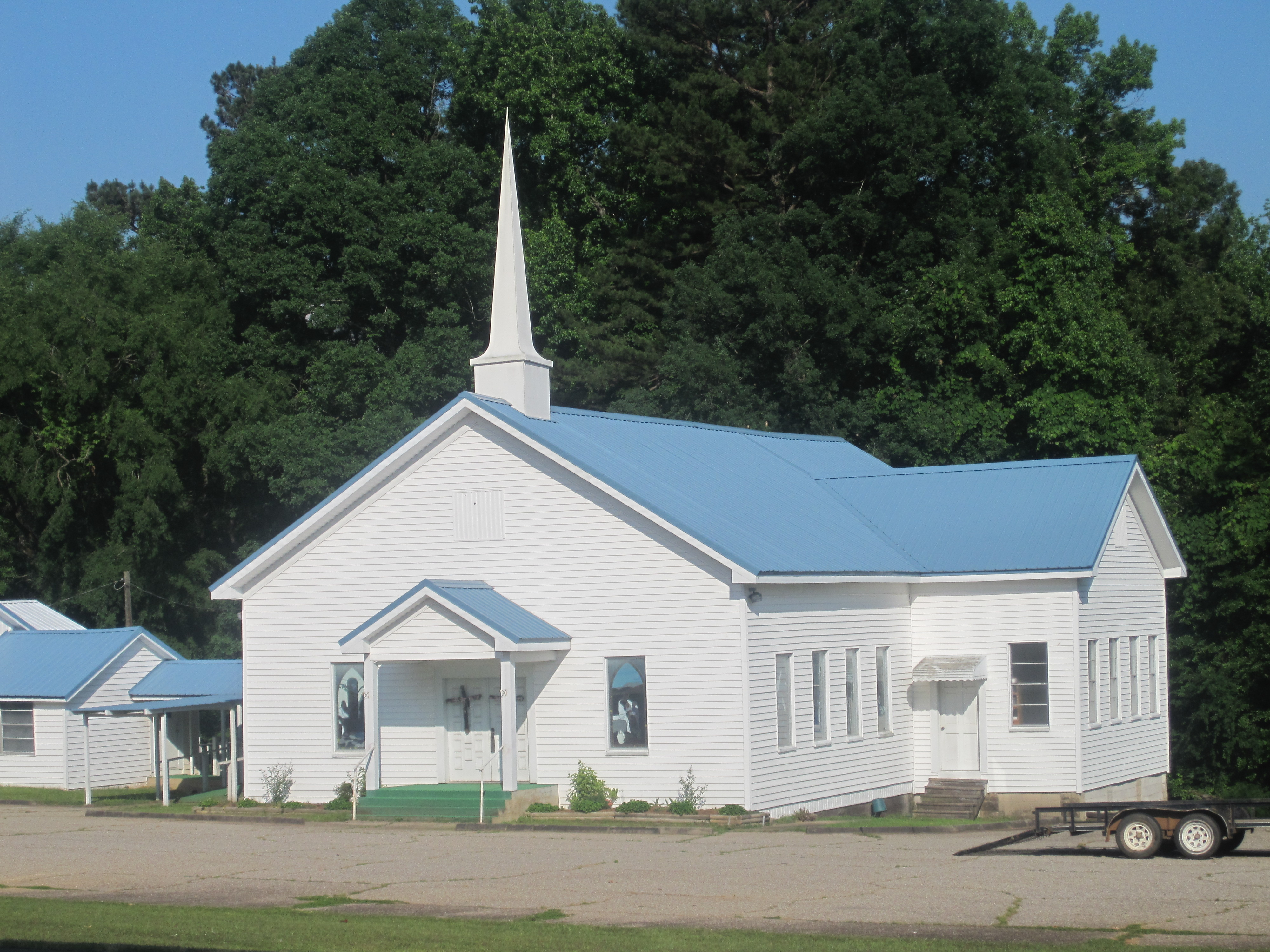 I took photo with Canon camera.